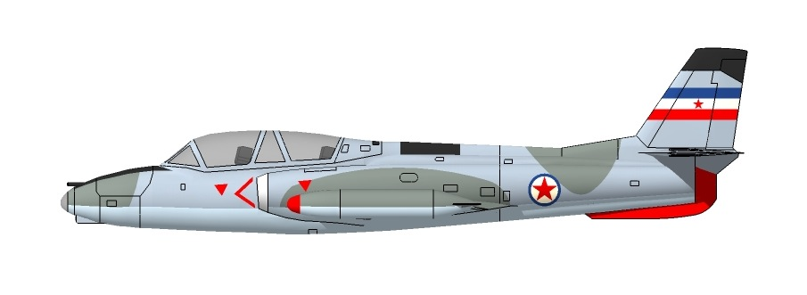 Profile of a Soko G-2 Galeb